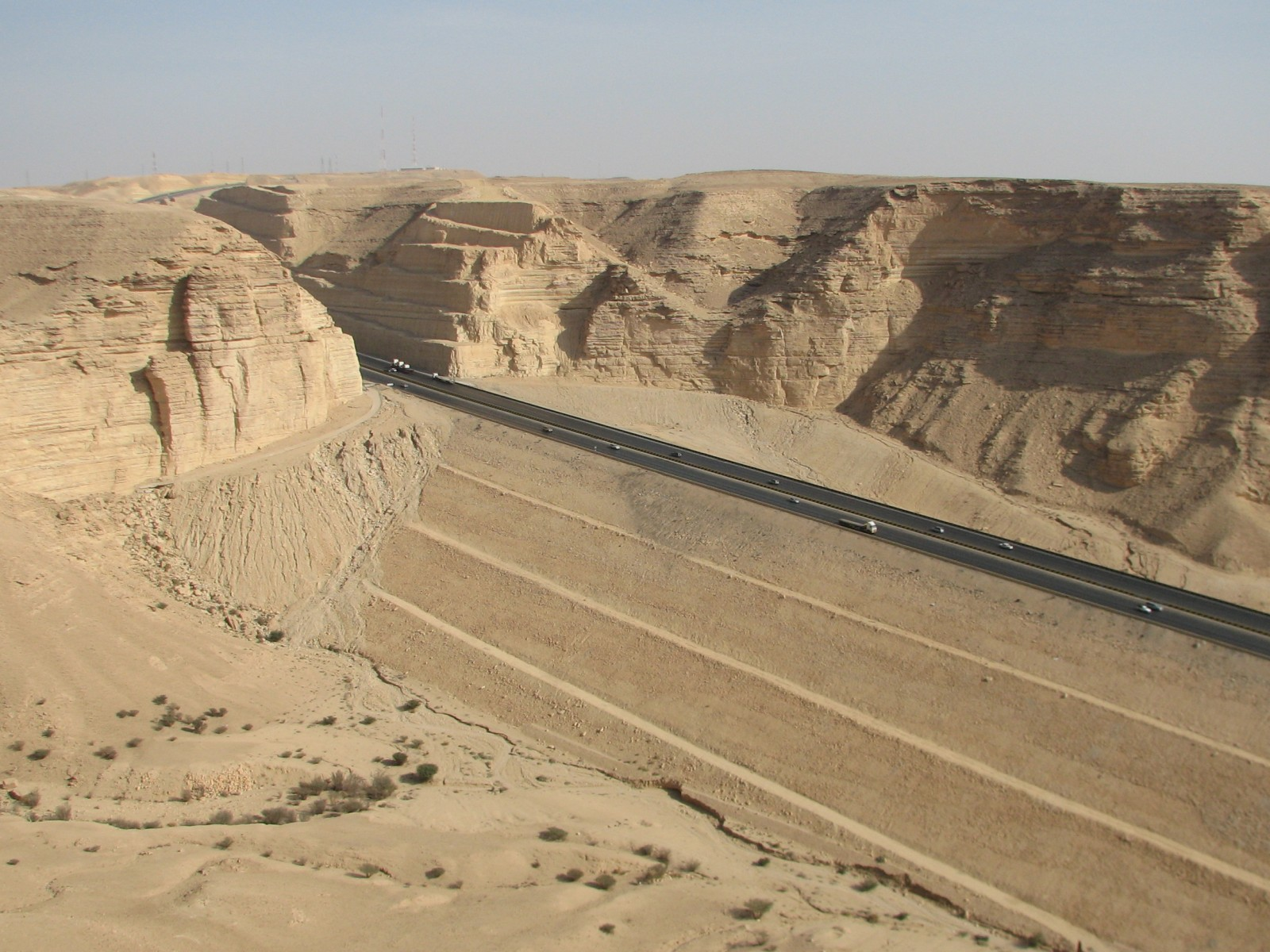 Tuwaiq Escarpment on Makkah Road, South of Riyadh